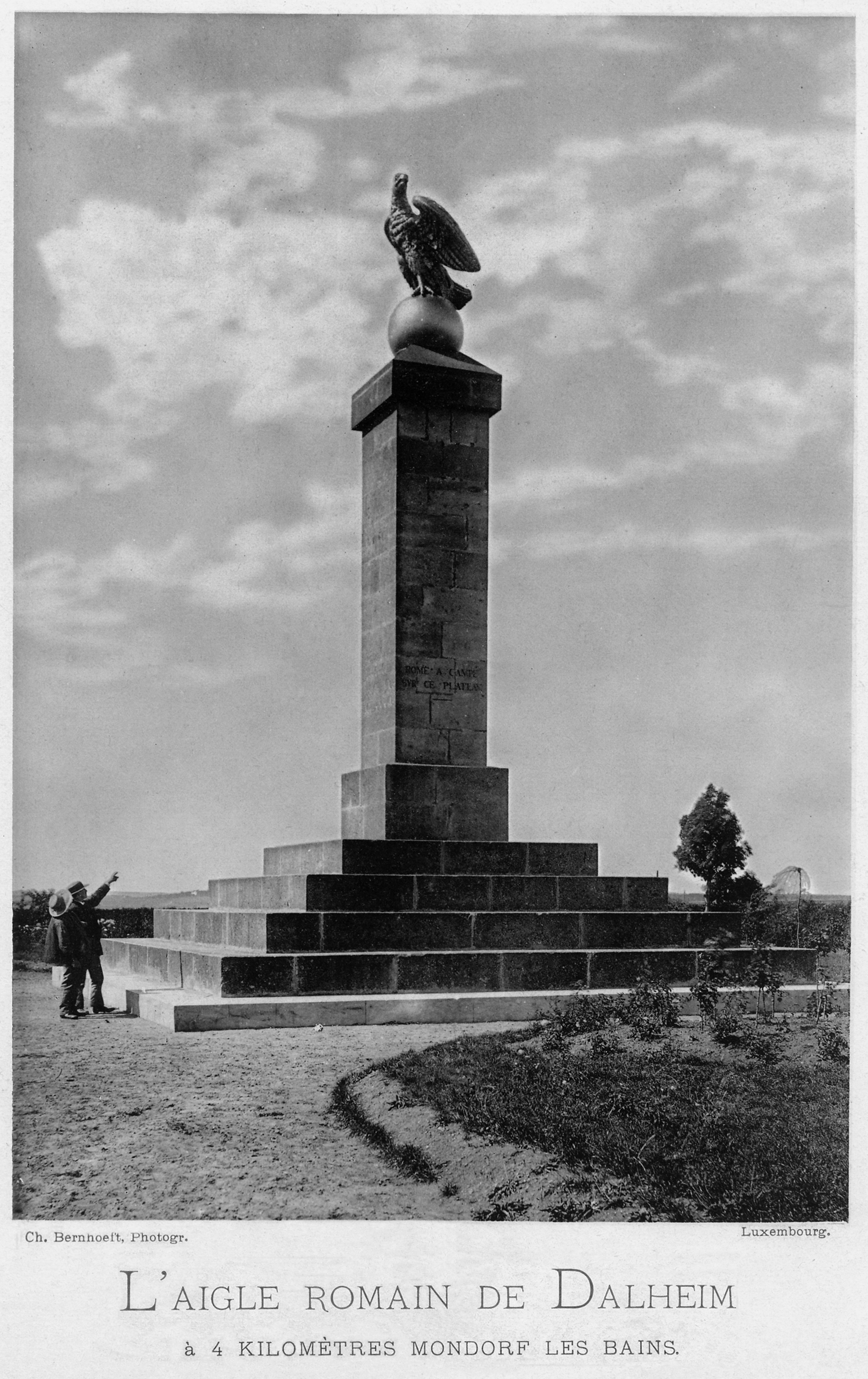 Roman Eagle Monument in Dalheim, Luxembourg.